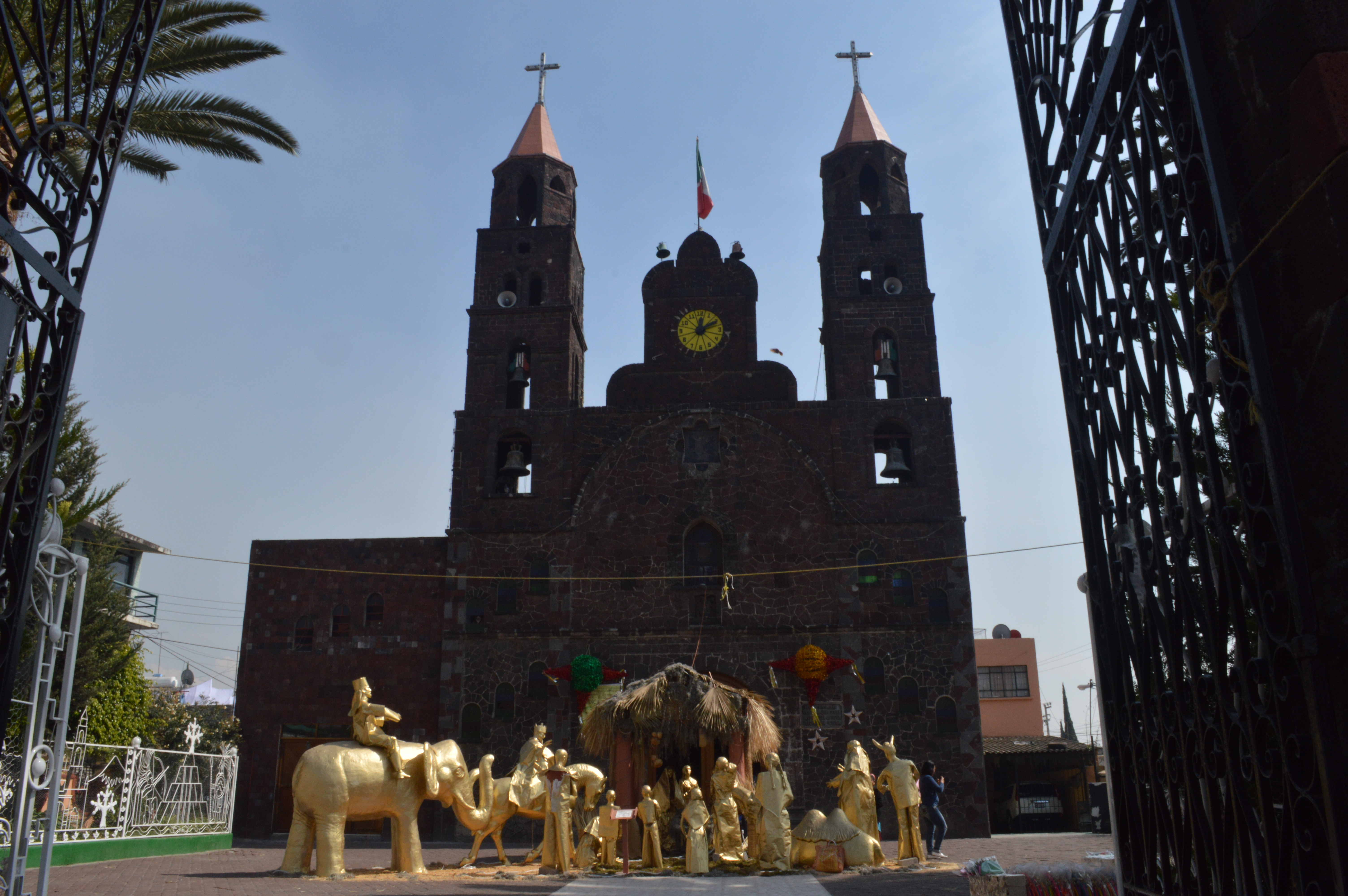 View of the parish church of Santiago Zapotitlan in the Tláhuac borough of Mexico City with large nativity scene in front